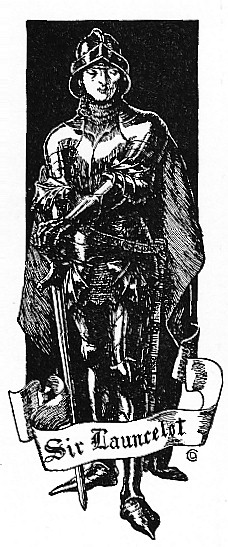 Lancelot